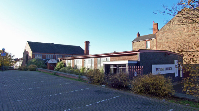 Cleethorpes Baptist Church Photo taken from Alexandra Road.